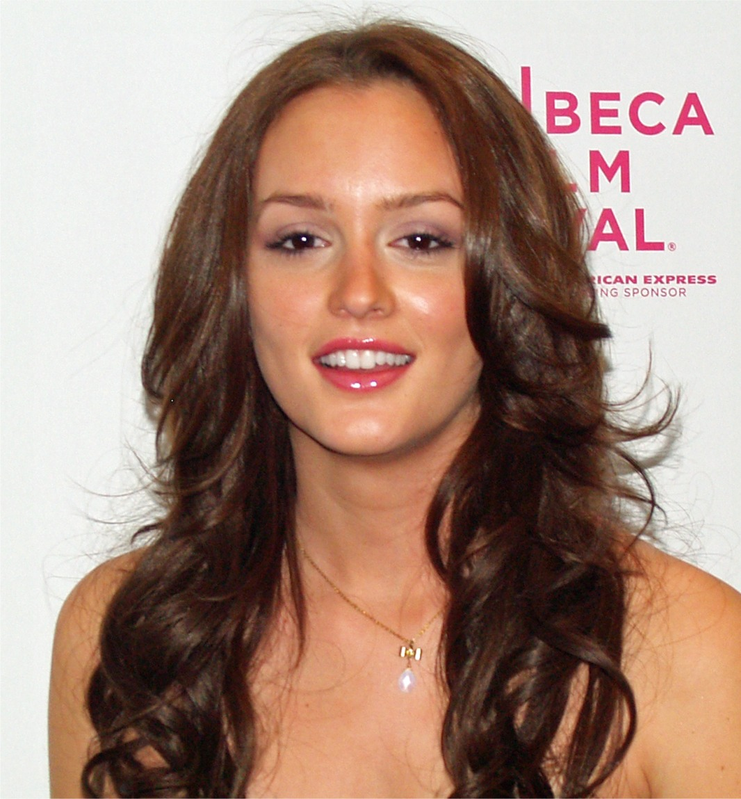 Leighton Meester at the premiere of Killer Movie at the 2008 Tribeca Film Festival. (cropped version)